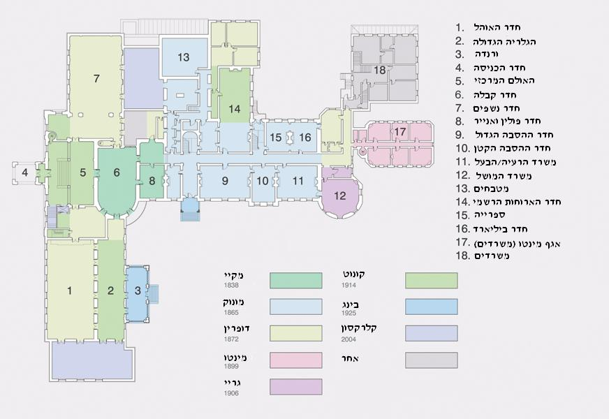 translation to Hebrew of Image:MacKayplan.jpg